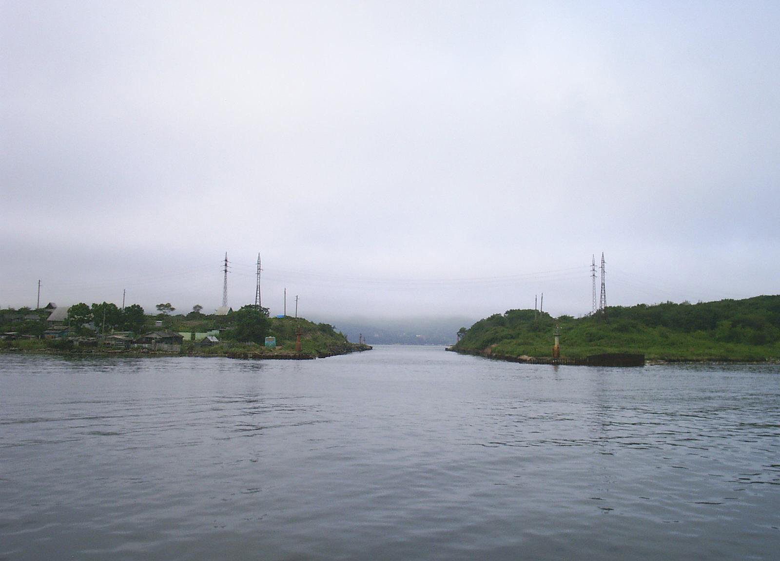 Channel between Russky Island and Isle of Yelena